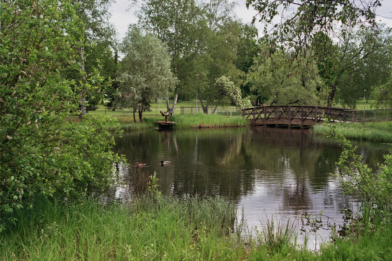 A view from Lampipuisto ("Pond Park"), a park in Nekala, Tampere, Finland.